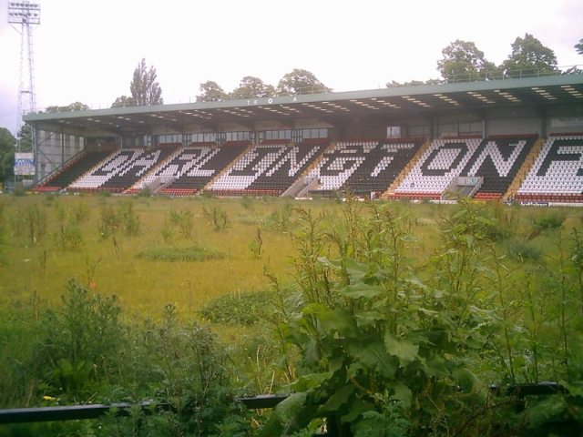 Feethams Football Ground, Darlington. Taken two years after the last game, the football ground is insecure and derelict. It is hoped it will be redeveloped for housing.